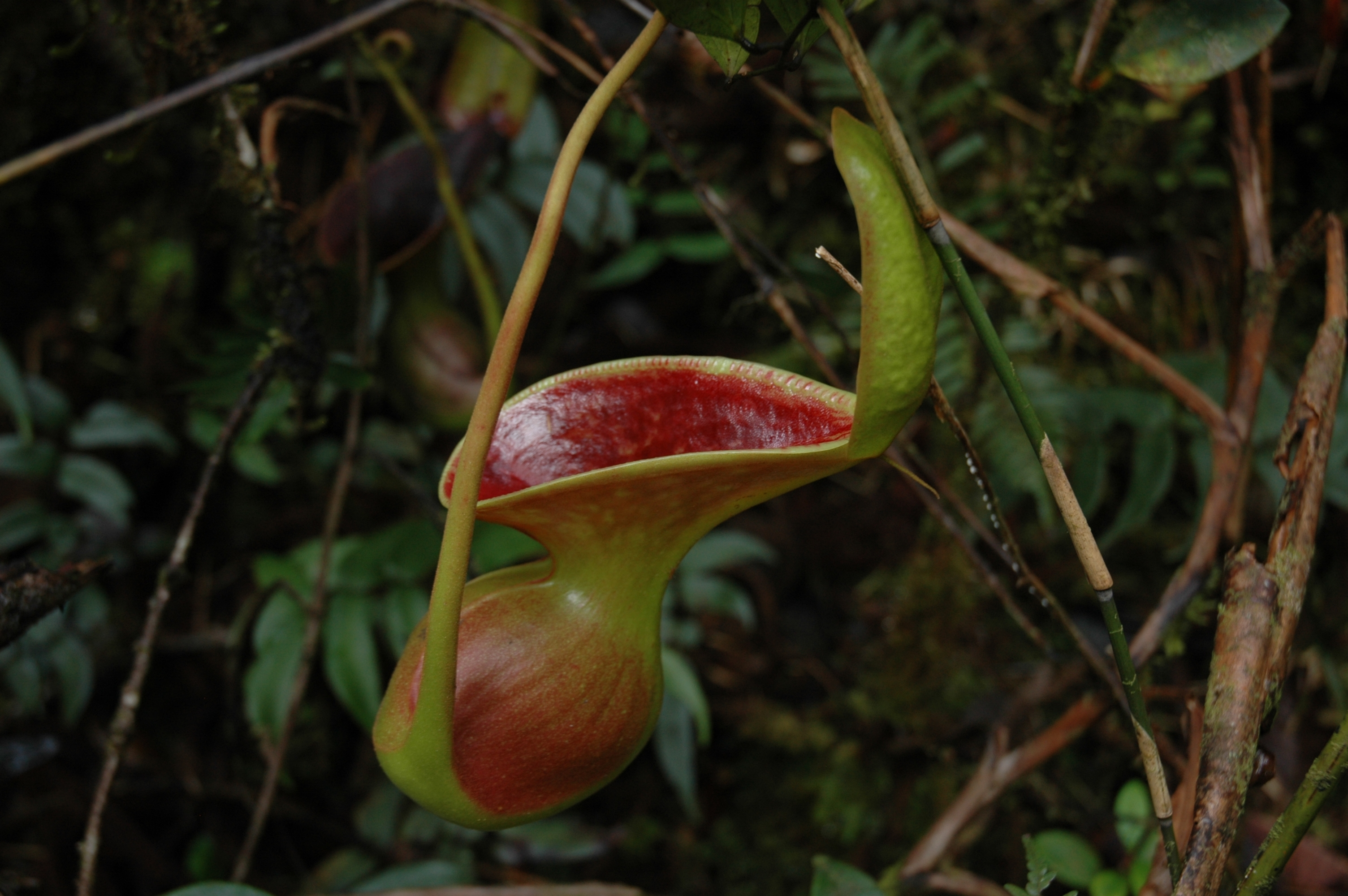 Nepenthes lowii Gunung Murud by Jeremiah Harris